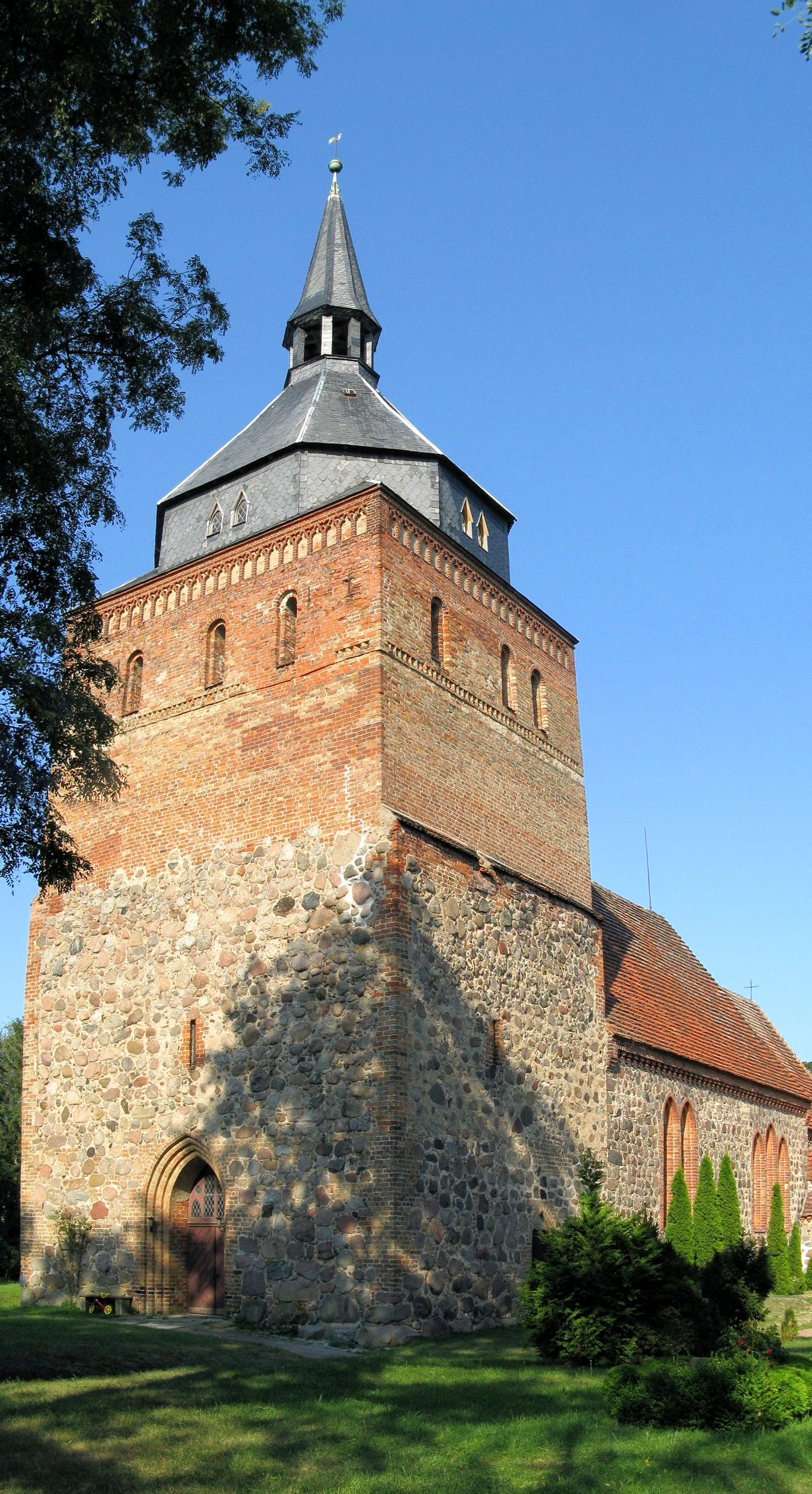 Church in Lüssow, disctrict Güstrow, Mecklenburg-Vorpommern, Germany